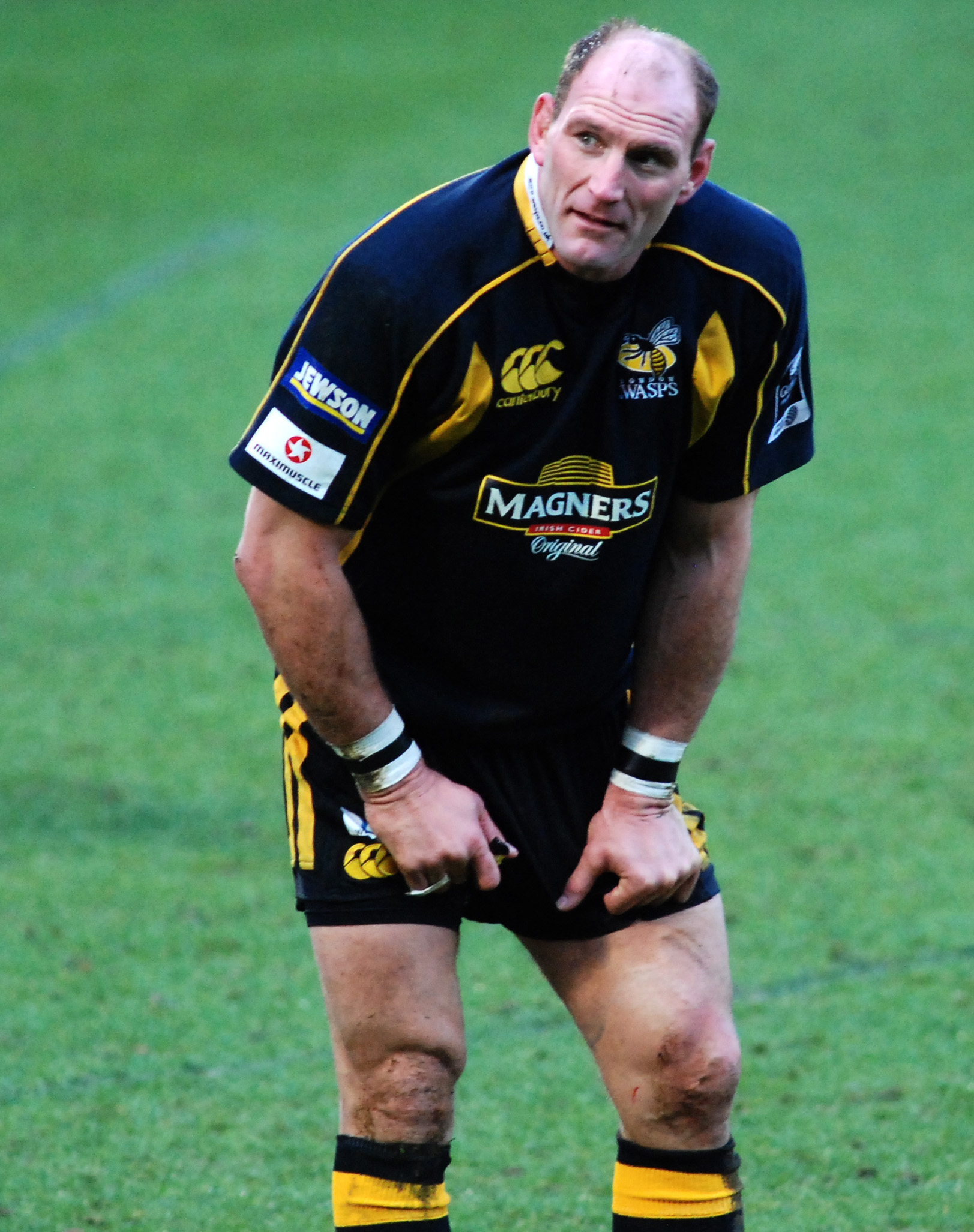 Lawrence Dallaglio